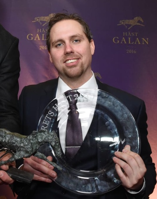 Daniel Redén